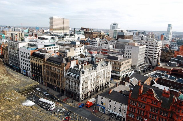 Leeds city panorama over looking the Headrow from the town hall clock tower.